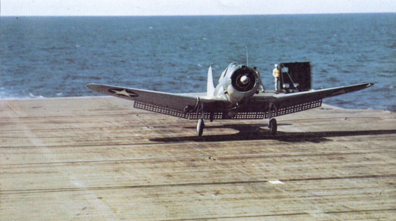 A U.S. Navy Douglas SBD Dauntless dive bomber landing aboard the aircraft carrier USS Ranger (CV-4), circa in June 1942.